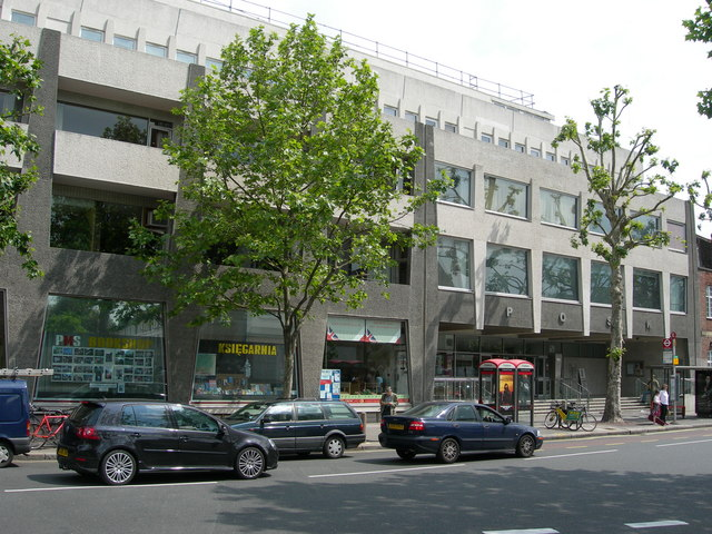 Polish Centre, King Street, W6 There has been a Polish community in the Hammersmith/Acton area for many years, long before Poland's entry to the EU or even the fall of the Iron Curtain. Many of the original settlers would have been Allied servicemen during World War 2. This is their cultural centre.